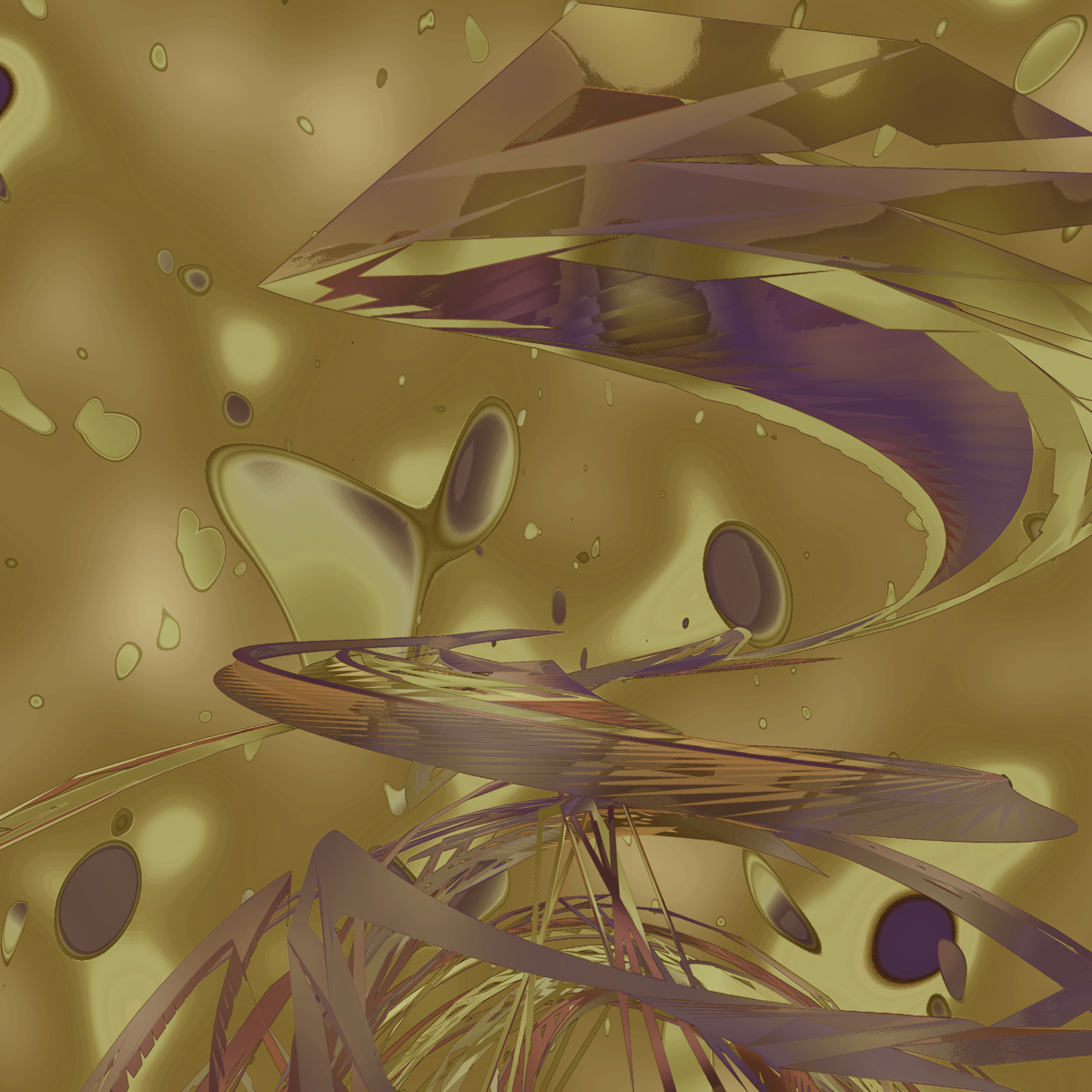 File:Bodo Sperling ROB 250200 Q7b 8x8